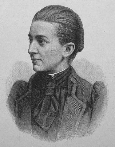 An 1894 artwork by Julius Wilhelm Hornung depicting Maria von Linden.